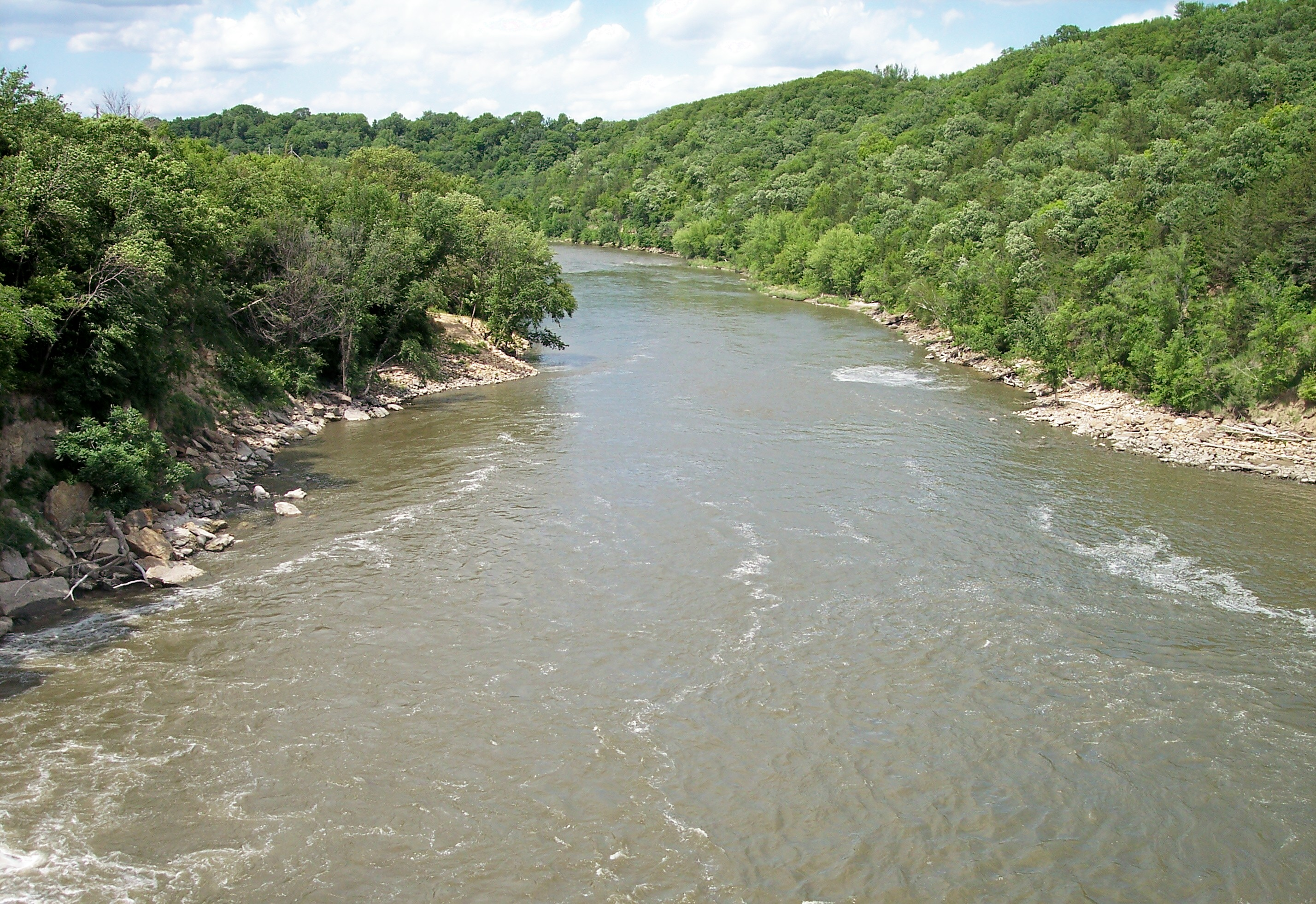 The Blue Earth River as viewed downstream from Rapidan Dam in Rapidan Township, Minnesota